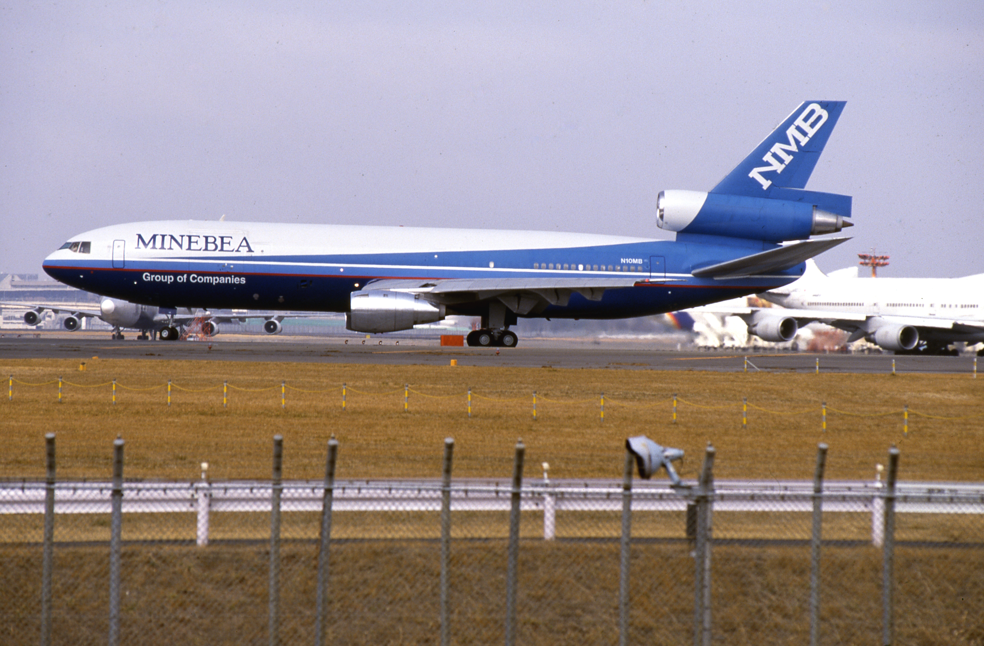 NMB Air Operations Corporation DC-10-30F(CF) (N10MB/47907/157)